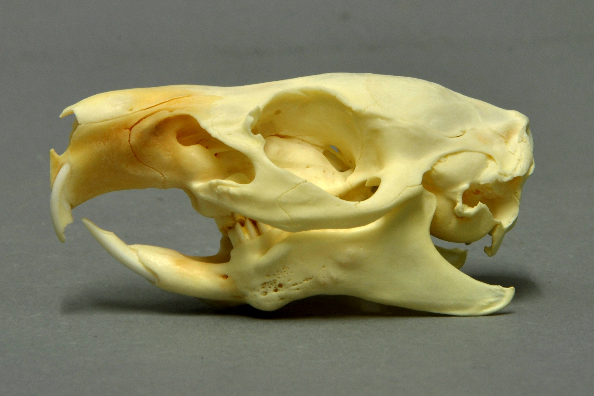 Guinea pig (Cavia porcellus) skull, Coll. Museum Wiesbaden